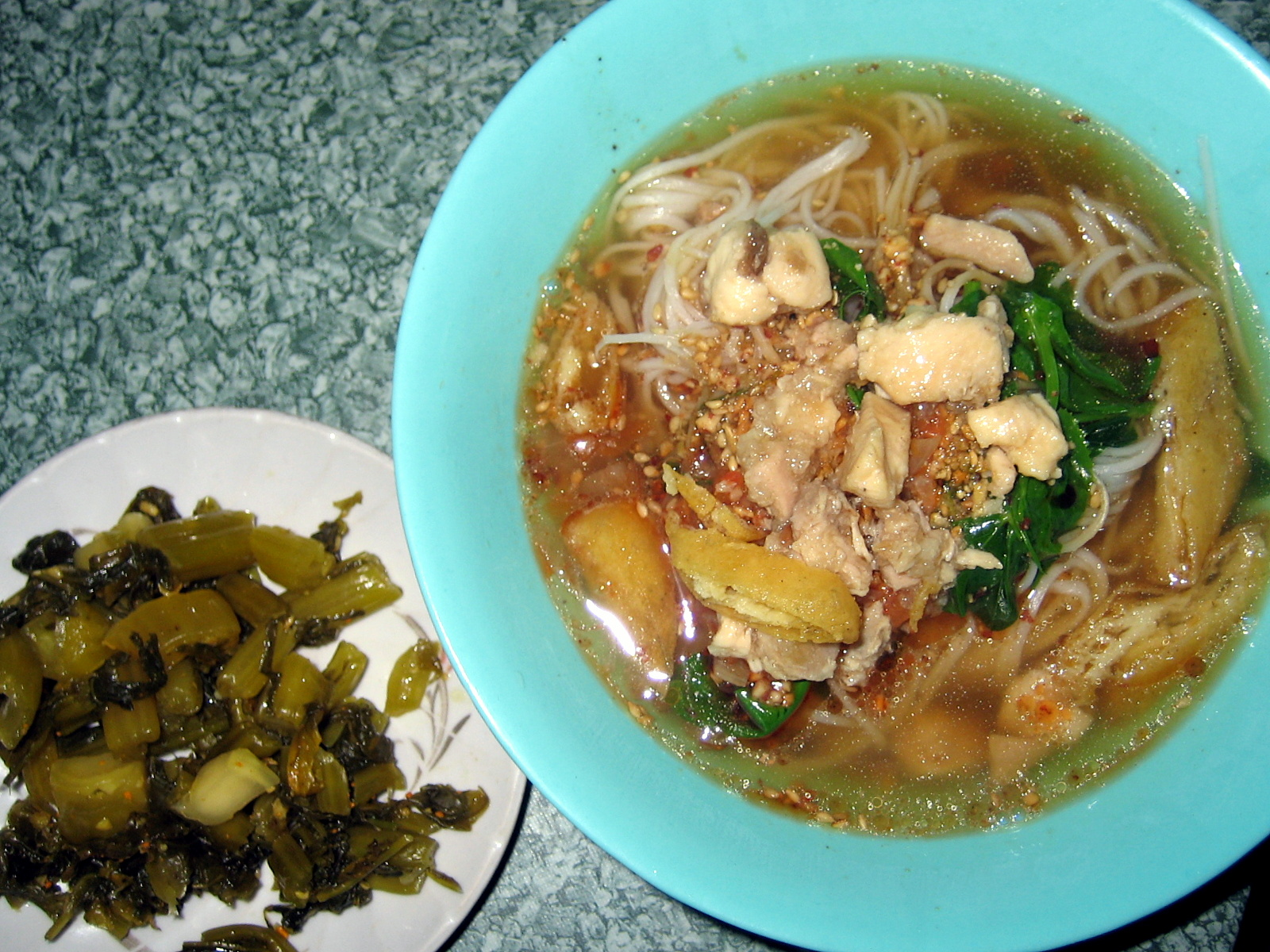 Shan hkauk swè - rice noodles, Shan style, in soup with chicken, dressed with peanut oil, chilli oil, light soy sauce, garnished with crushed roasted peanuts, toasted sesame, young vine of mangetout and to hpu gyaw (Burmese tofu fritters), and served with monnyingyin (pickled mustard greens) on the side at a market restaurant in Pyin U Lwin, Myanmar.